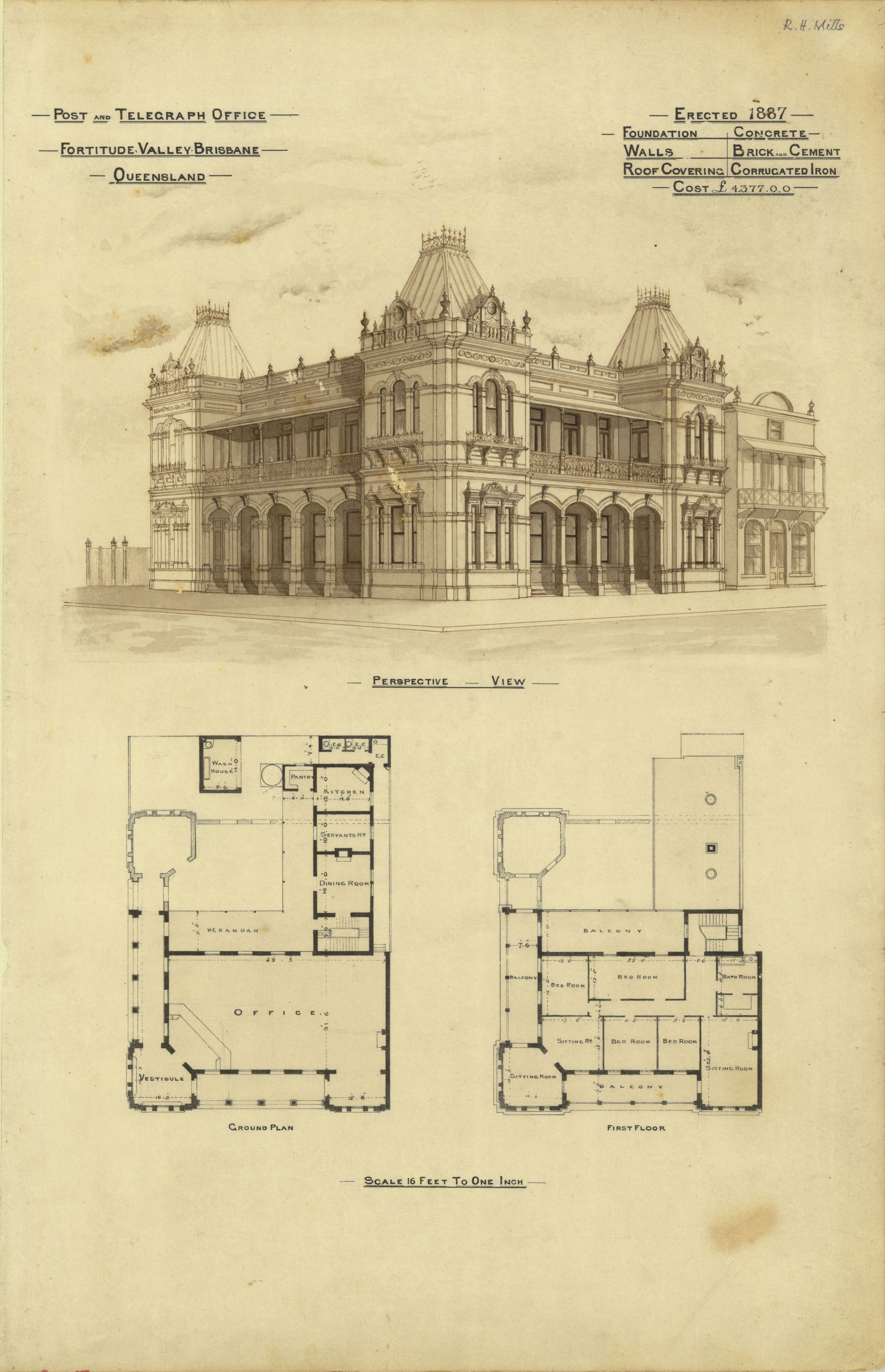 Post & Telegraph Office, Fortitude Valley, Brisbane, circa 1888